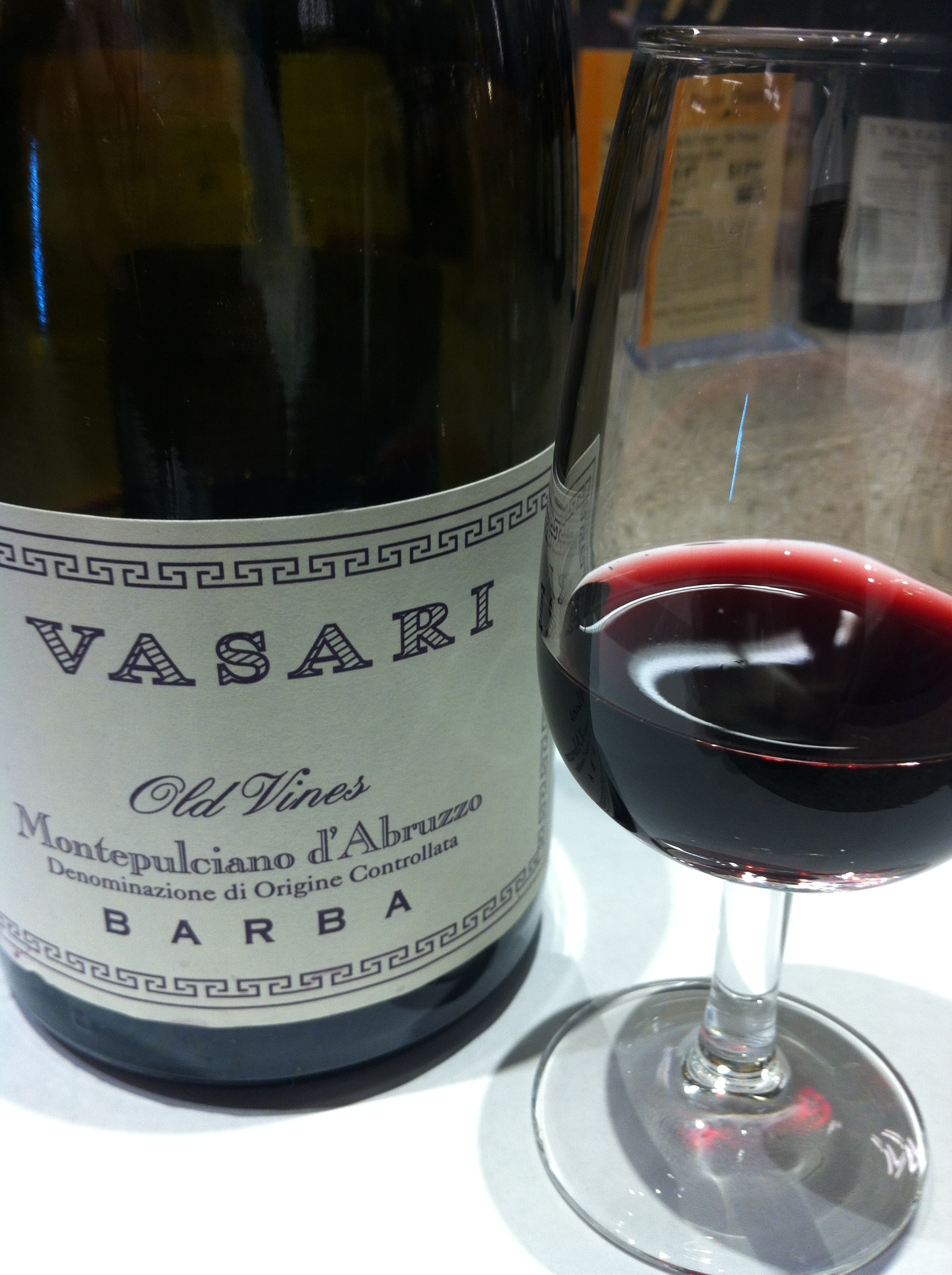 Red Italian wine from the Abruzzi region made from the Montepulciano grape.